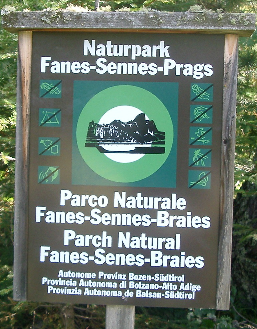 sign of natural park in South Tyrol Fanes-Sennes-Prags, trilingual Italian, German, Ladin